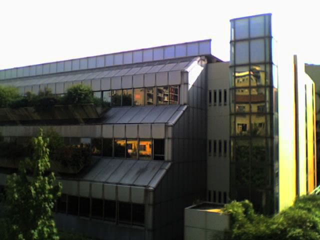 SDA Bocconi building